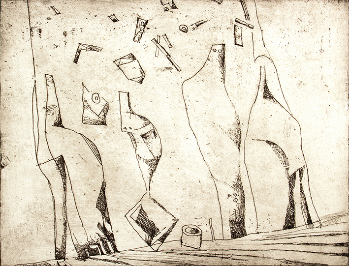 742 25x33cm paper